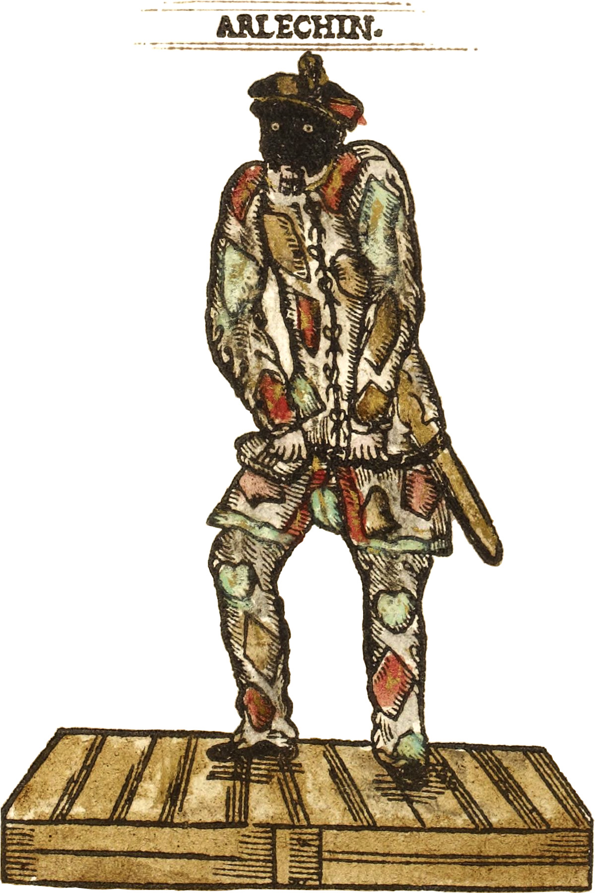 Figure from the title page of Compositions de rhétorique de Mr. Don Arlequin by the Italian commedia dell'arte actor Tristano Martinelli, showing the author as Harlequin, standing